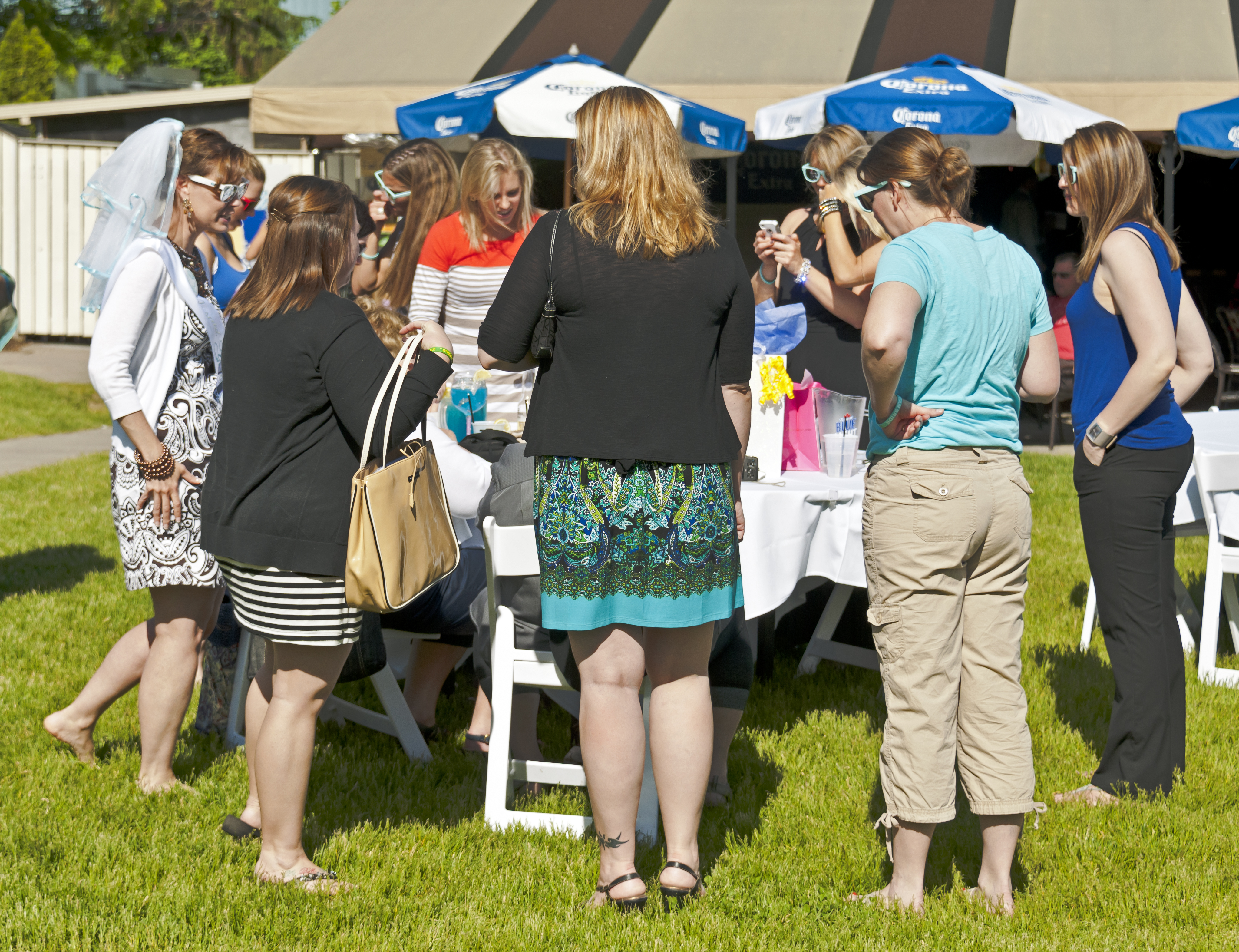 A bachelorette party on the grounds of a hotel in Canandaigua, NY, USA. The bride-to-be, at left, is identifiable by her veil.